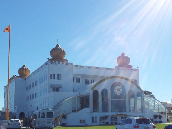 Sri Guru Singh Sabha Gurudwara (Temple), Glenwood/Parklea, Sydney